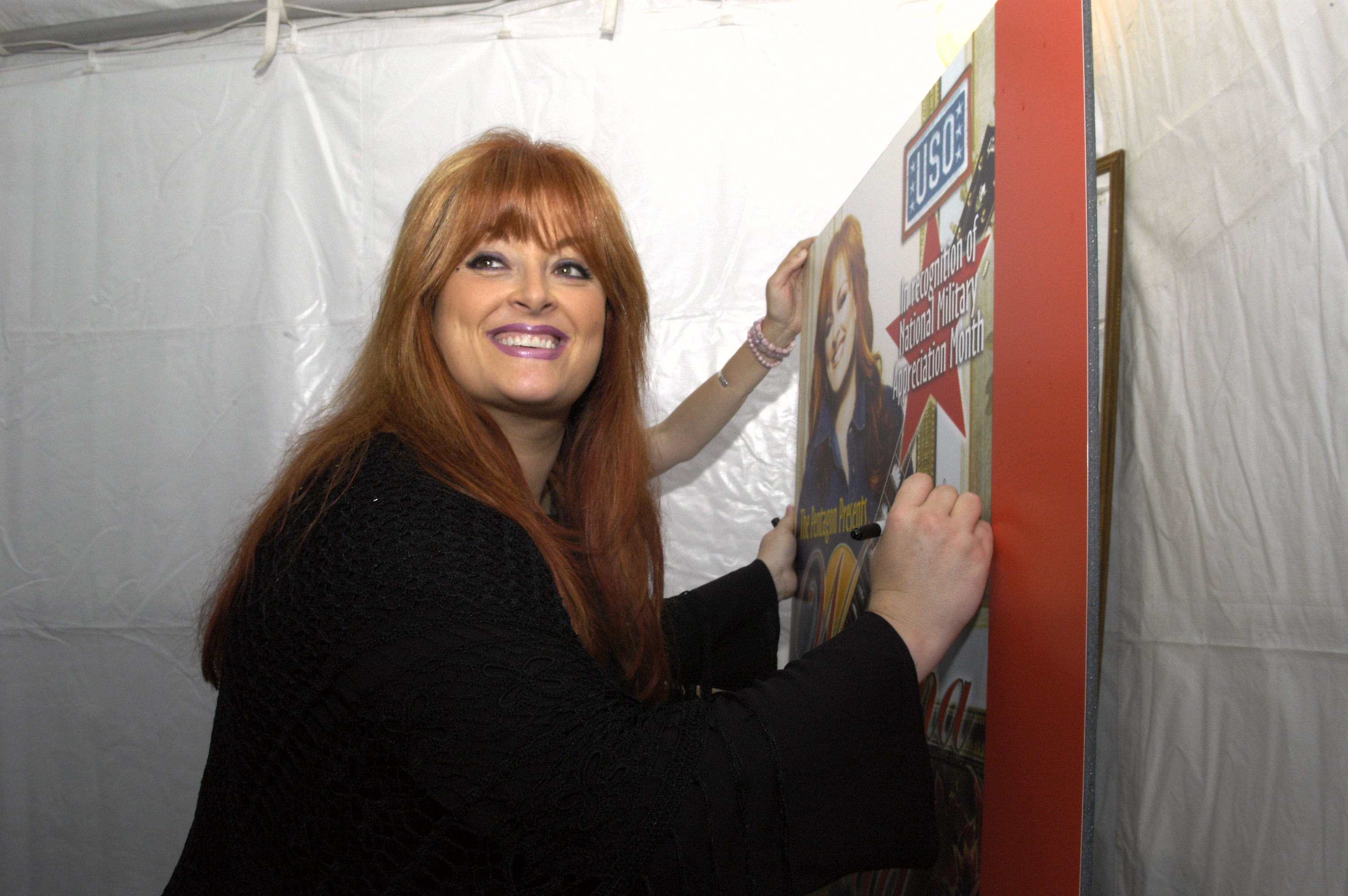 Country music singer Wynonna Judd signs a poster announcing her USO concert at the Pentagon on May 21, 2004.